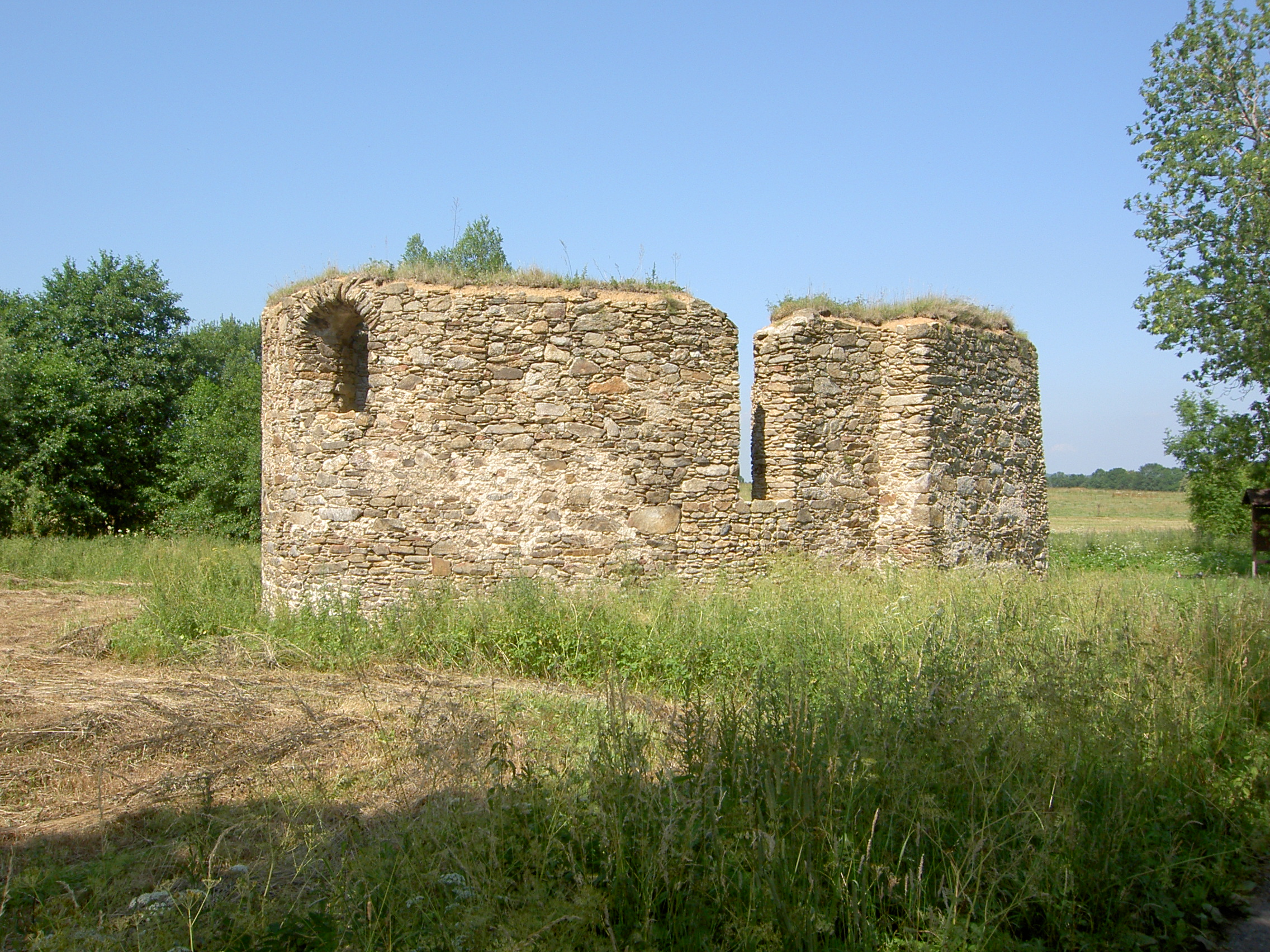 Ruin of St. James church in village of Jindřichovice pod Smrkem, Liberec District, Czech Republic